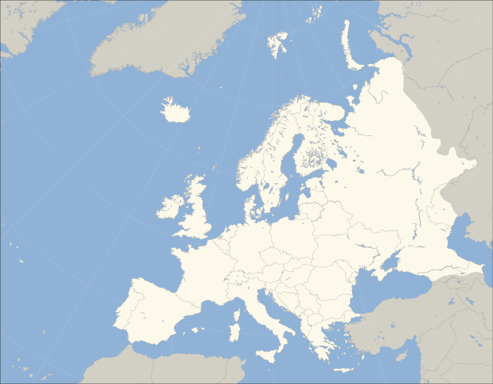 A blank political map of Europe